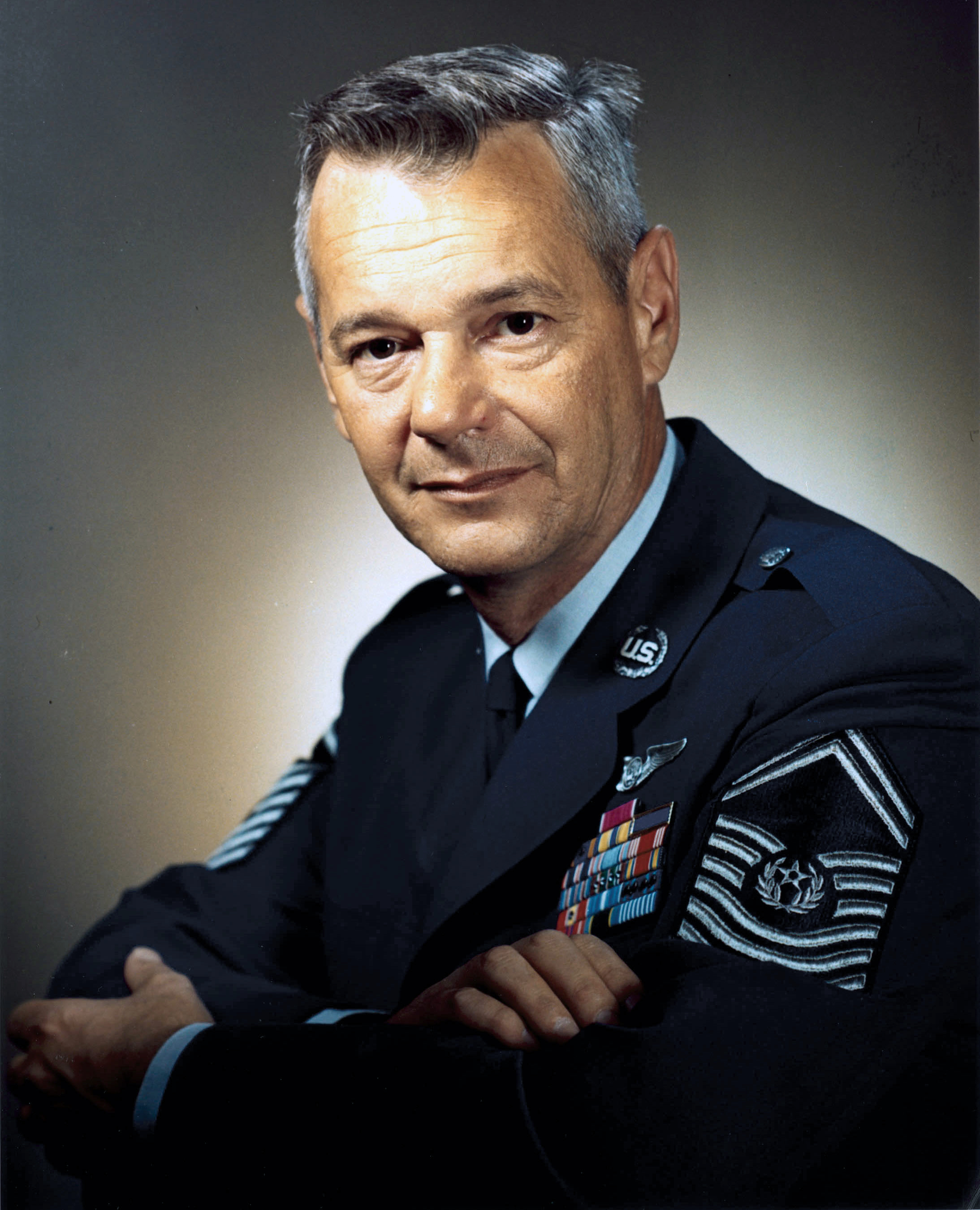 Official photo of Paul W. Airey, first CMSAF from